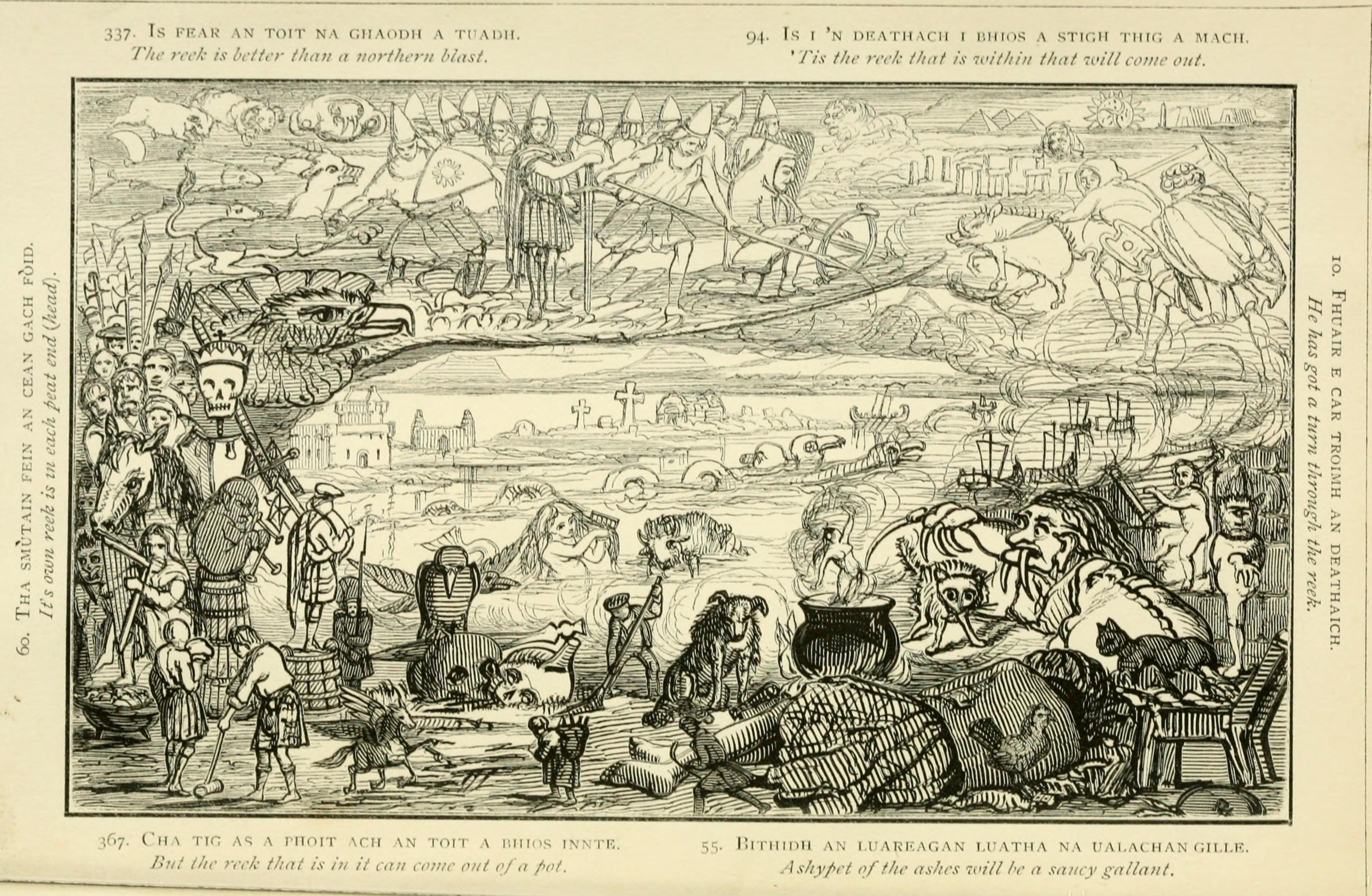 Title: Popular tales of the West Highlands : orally collected Year: 1860 (1860s) Authors: Campbell, J. F. (John Francis), 1822-1885 Subjects: Publisher: Edinburgh : Edmonston and Douglas Text Appearing Before Image: ' Text Appearing After Image: POPULAE TALES OF THE WEST HIGHLANDS OEALLY COLLECTEDBy J. E. CAMPBELL VOL. IV.POSTSCRIPT. OSSIANIC CONTROVERSY —BRITISH TRADITION, PROSE, AND POETRY—MYTHOLOGY—HIGHI.AND DRESS CELTIC ORNAMENT, ETC. ETC. EDINBUKGH: EDMOJ^STON AND DOUGLAS. 1862. CONTENTS. Page Postscript ...••!I. OSSIAN, 5. Points for Argument, 6. State-ment of the Case, 7. Current Opinions—English, 8; Scotch, 9; Irish, 10; IrisliArgument considered, 12 ; Lowland Scotch 24Authorities—Heroes of Ossian, 25. Eefer-ences to Fenian and other Traditions, andto Ossianic Heroes and Poems in Old Writ-ings, chronologically arranged . .37Published Evidence and Books . .103Popular Ballads . • .123Current Gaelic Traditions, etc. ■ .128Internal Evidence, etc., 142. Published Gaelic Ossian, 143. Opinion of MacNair 159Essay on Gaelic Poetry by H. MacLean . 160Letter from John Dewar . . .215 Letter from D. K. Torrie . . .217 Letter from Archibald Sinclair . .221 Letter from Alexander Carmichael . 229 Conclusion . . •populartalesofwe14camp